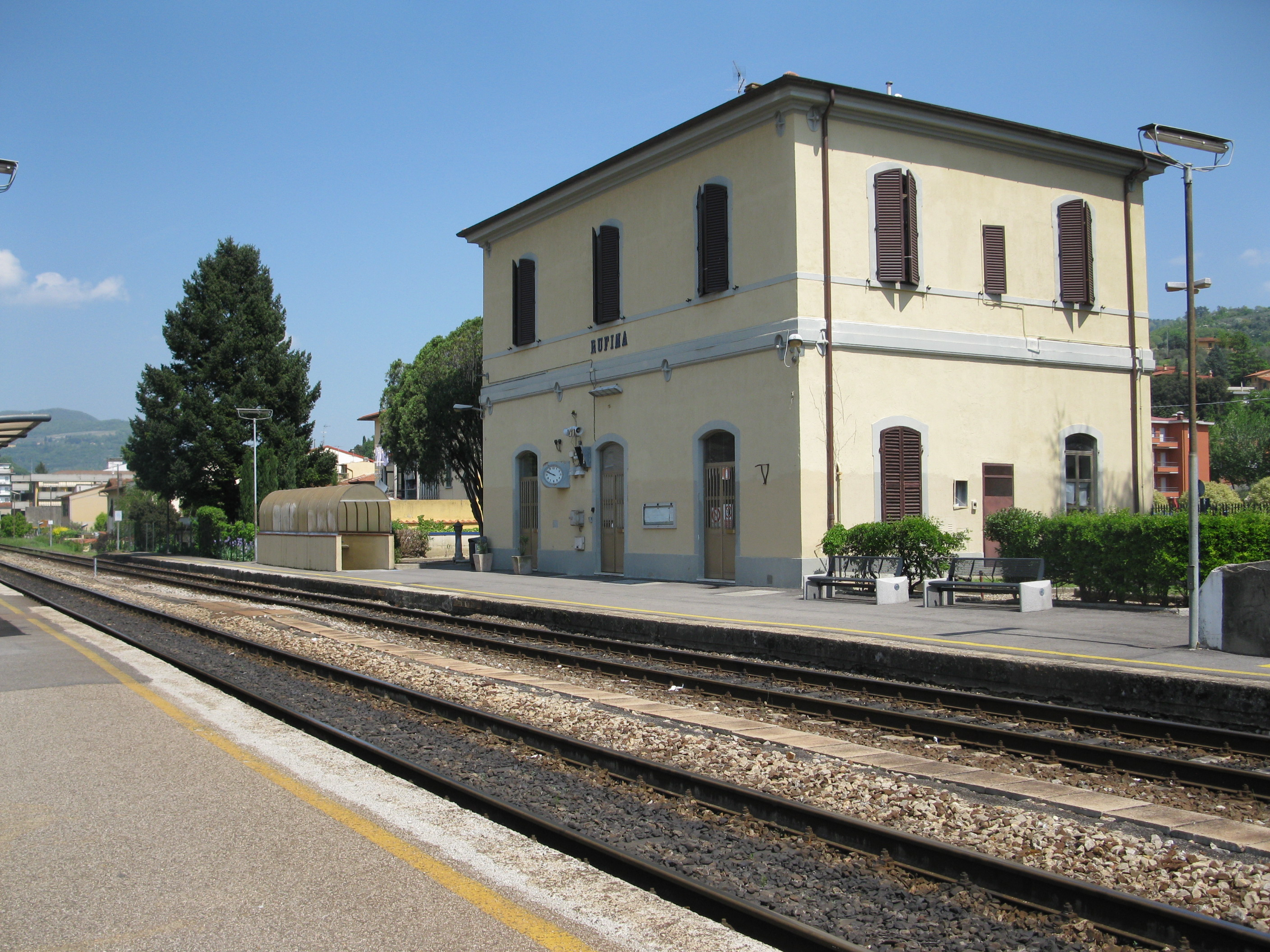 Rufina railway station, station building